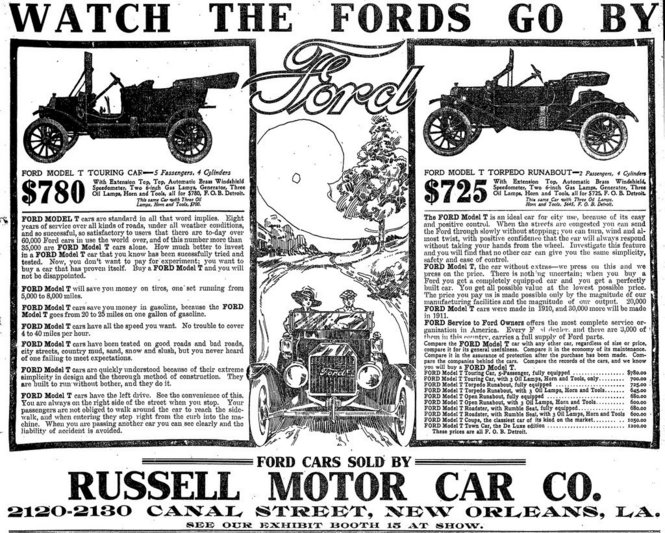 1911 advertisement for Ford Model T automobiles (Touring Car and Torpedo Runabout models), Russell Motor Car Company, Canal Street, New Orleans